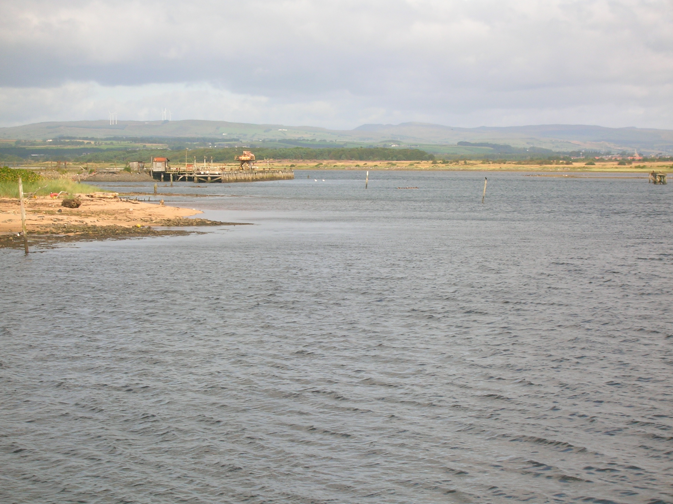 The river Garnock at Irvine harbour with the old ICI explosive's jetty to the left. Rosser 20:27, 26 August 2007 (UTC)